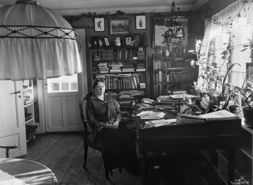 The Norwegian author Sigrid Undset in her office at Bjerkebæk, Lillehammer, Norway.